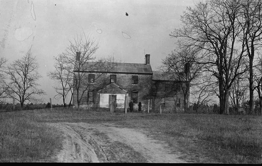 Blenheim, State Route 204 vicinity, Oak Grove (Westmoreland County, Virginia) cropped, HABS VA,97-OKGRO,1-1 This file comes from the Historic American Buildings Survey (HABS), Historic American Engineering Record (HAER) or Historic American Landscapes Survey (HALS). These are programs of the National Park Service established for the purpose of documenting historic places. Records consist of measured drawings, archival photographs, and written reports. When reusing please credit: Library of Congress, Prints & Photographs Division, VA-571 This tag does not indicate the copyright status of the attached work. A normal copyright tag is still required. See Commons:Licensing for more information. English | +/− This work is in the public domain in the United States because it is a work prepared by an officer or employee of the United States Government as part of that person’s official duties under the terms of Title 17, Chapter 1, Section 105 of the US Code. See Copyright. Note: This only applies to original works of the Federal Government and not to the work of any individual U.S. state, territory, commonwealth, county, municipality, or any other subdivision. This template also does not apply to postage stamp designs published by the United States Postal Service since 1978. (See § 313.6(C)(1) of Compendium of U.S. Copyright Office Practices). It also does not apply to certain US coins; see The US Mint Terms of Use. This file has been identified as being free of known restrictions under copyright law, including all related and neighboring rights. Object location38° 11′ 11″ N, 76° 56′ 38″ W